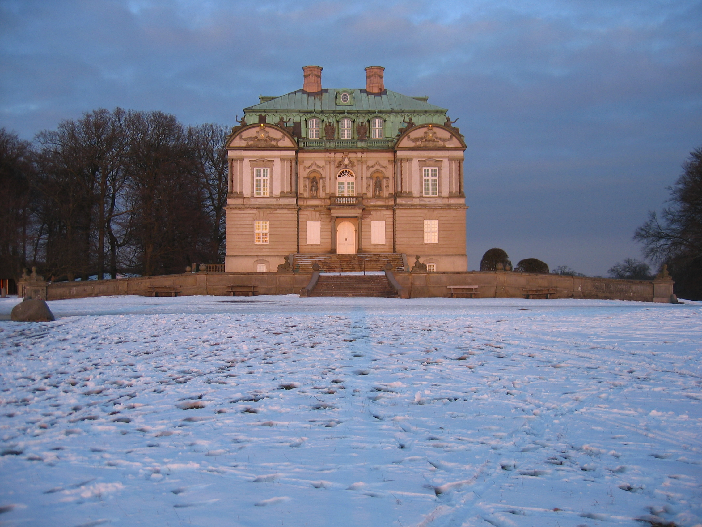 Eremitage castle, Jægersborg Deer Park, Denmark.